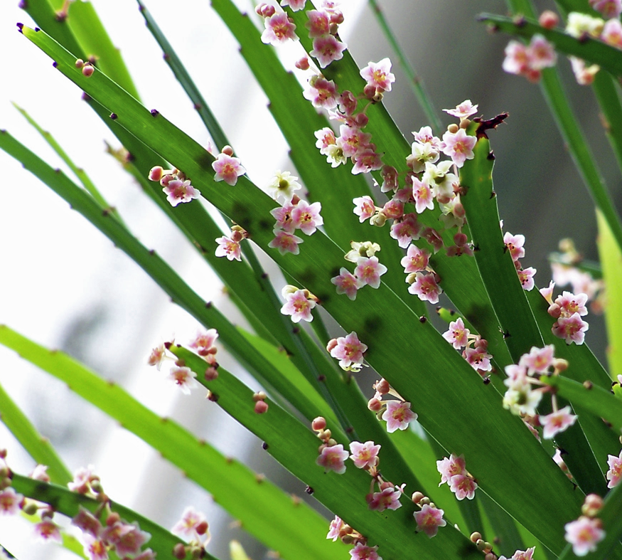 Species: Phyllanthus angustifolius